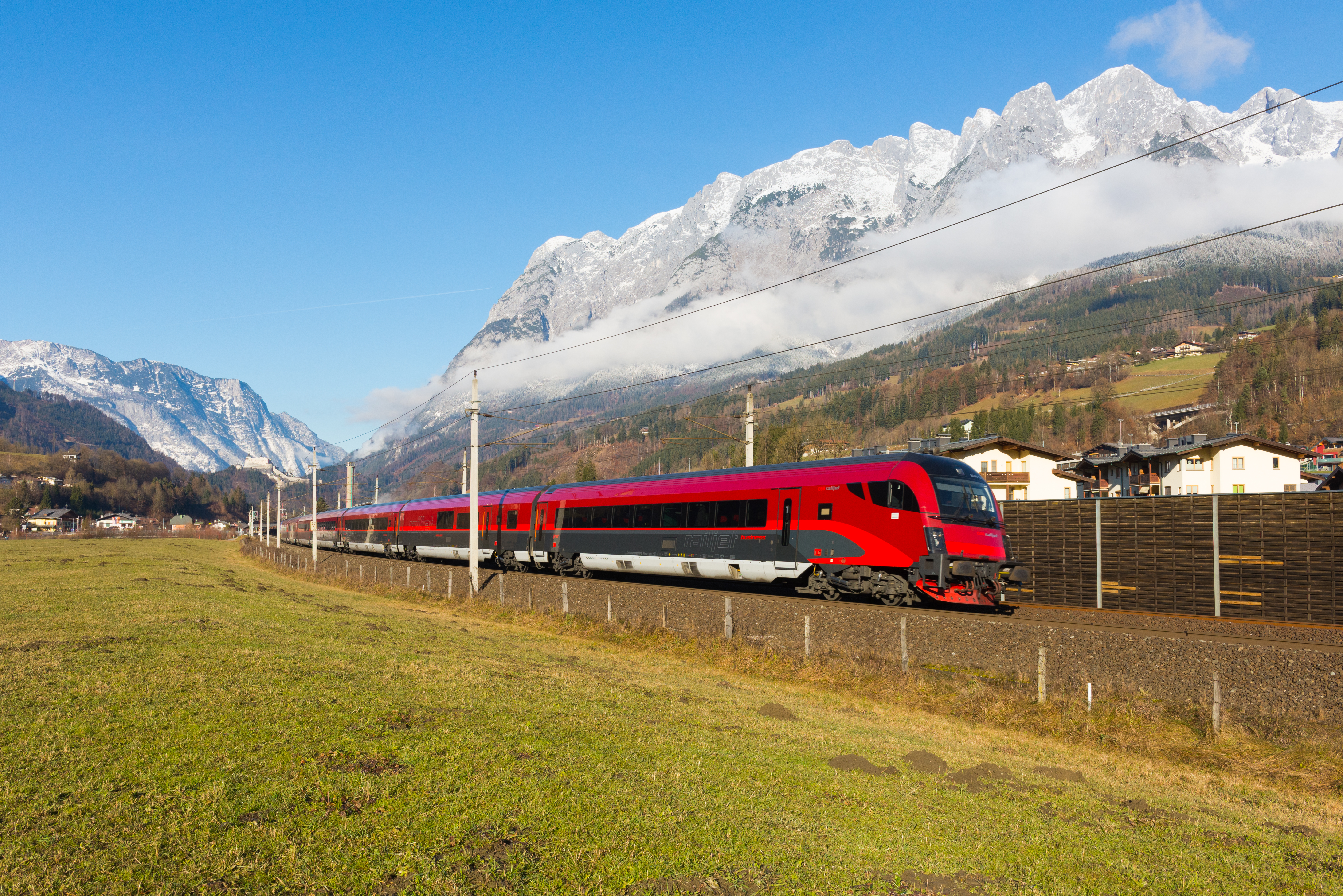 RJ 596 near Pfarrwerfen, 13.12.2016